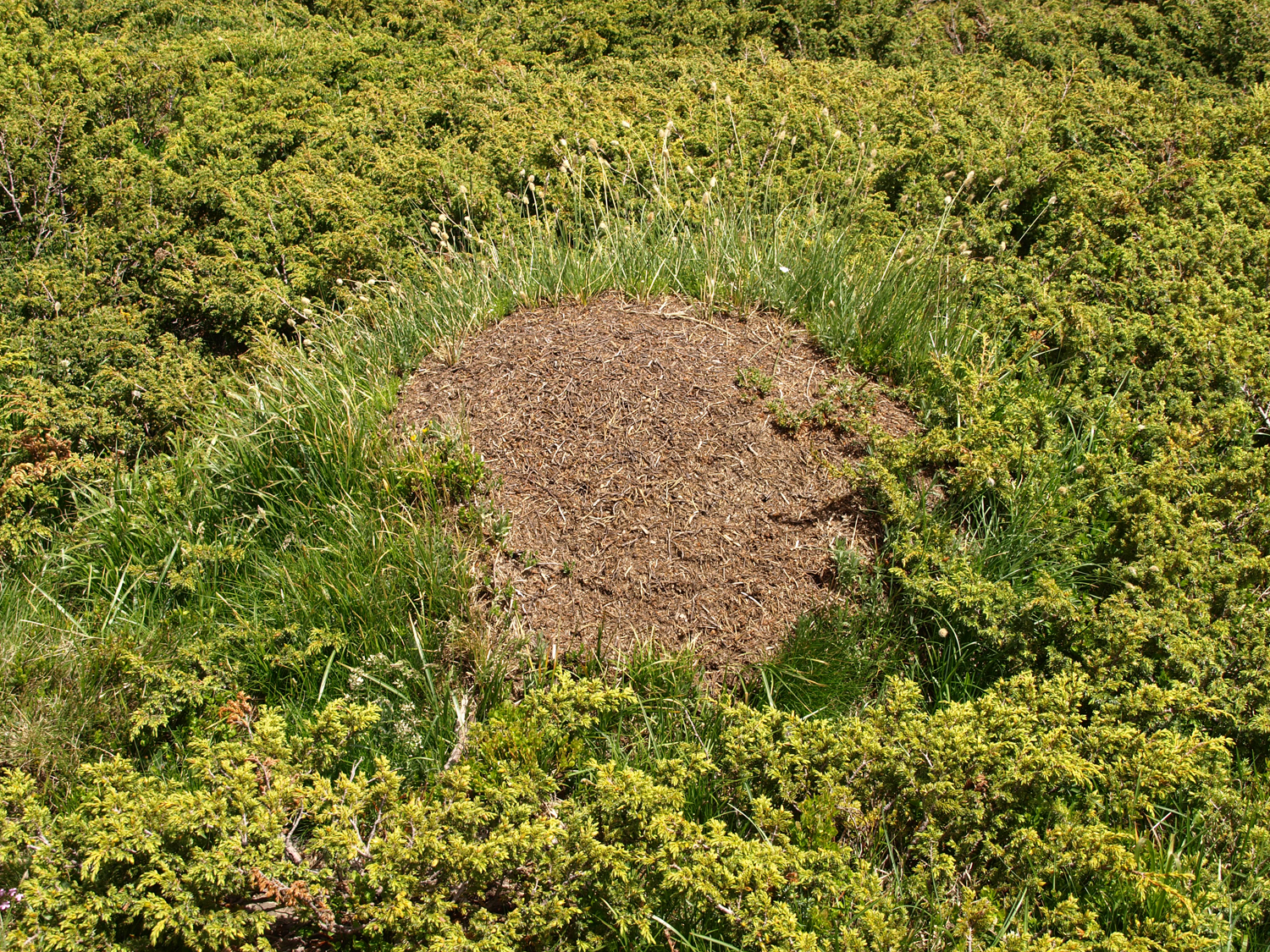 Ant hill of Formica rufa among Juniperus communis subsp. alpina, at 2100-2135 m altitude in the Rila Mountains, Bulgaria